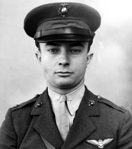 Brig. Gen. Frederick "Fritz" Payne Jr.